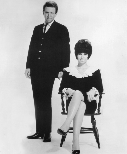 A publicity photo of Dick and Dee Dee from the mid-sixties